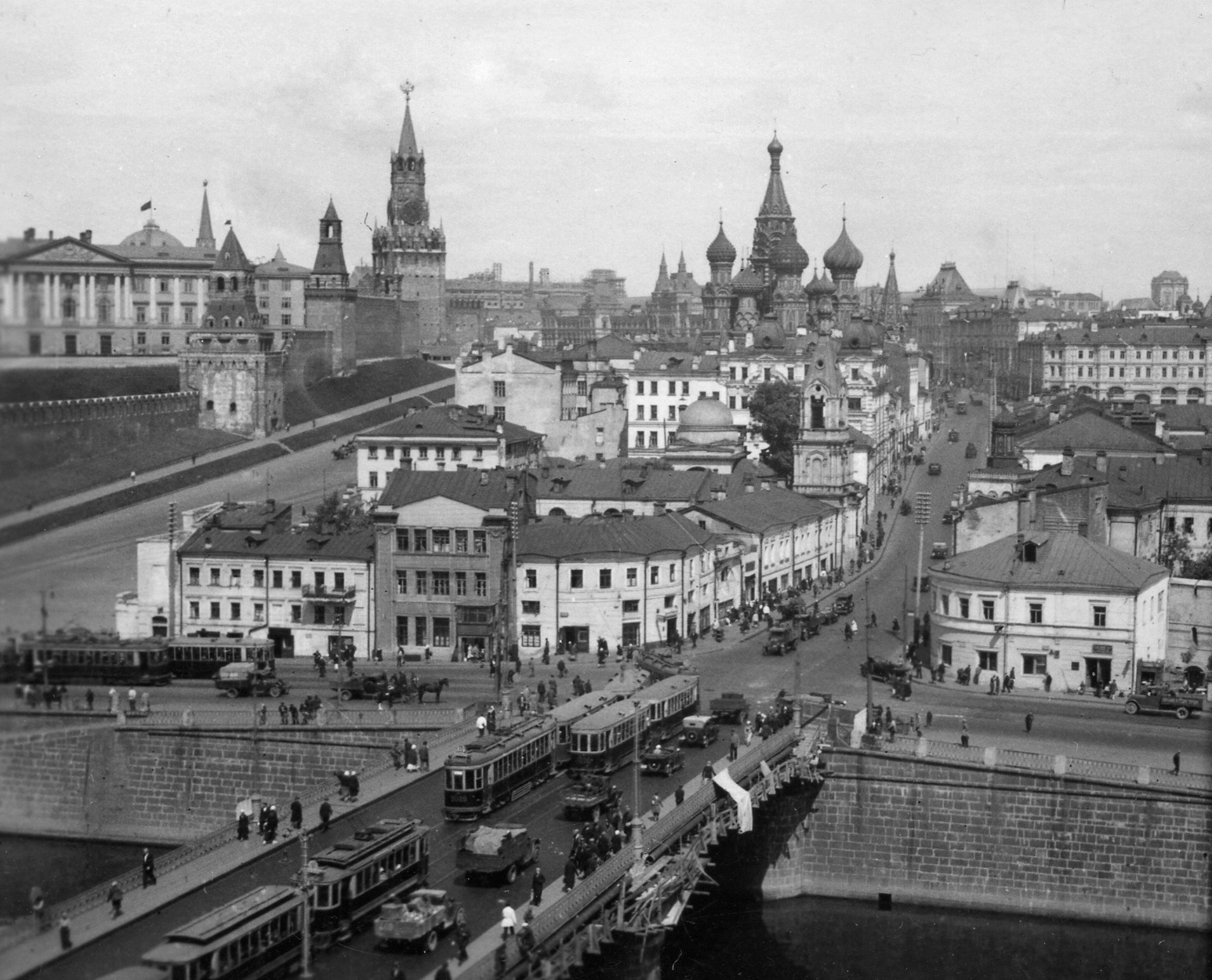 Moscow, 1935. View of (soon demolished) Moskvoretsky bridge and Moskvoretskaya Street from Balchug Hotel